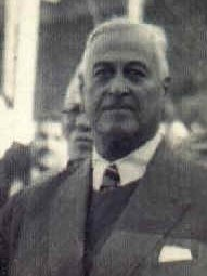 Victor Heitz (1884 - ?), founding member and first President of Argentine Club Newell's Old Boys. He completed a total of four periods as president of the club, the last in 1941.